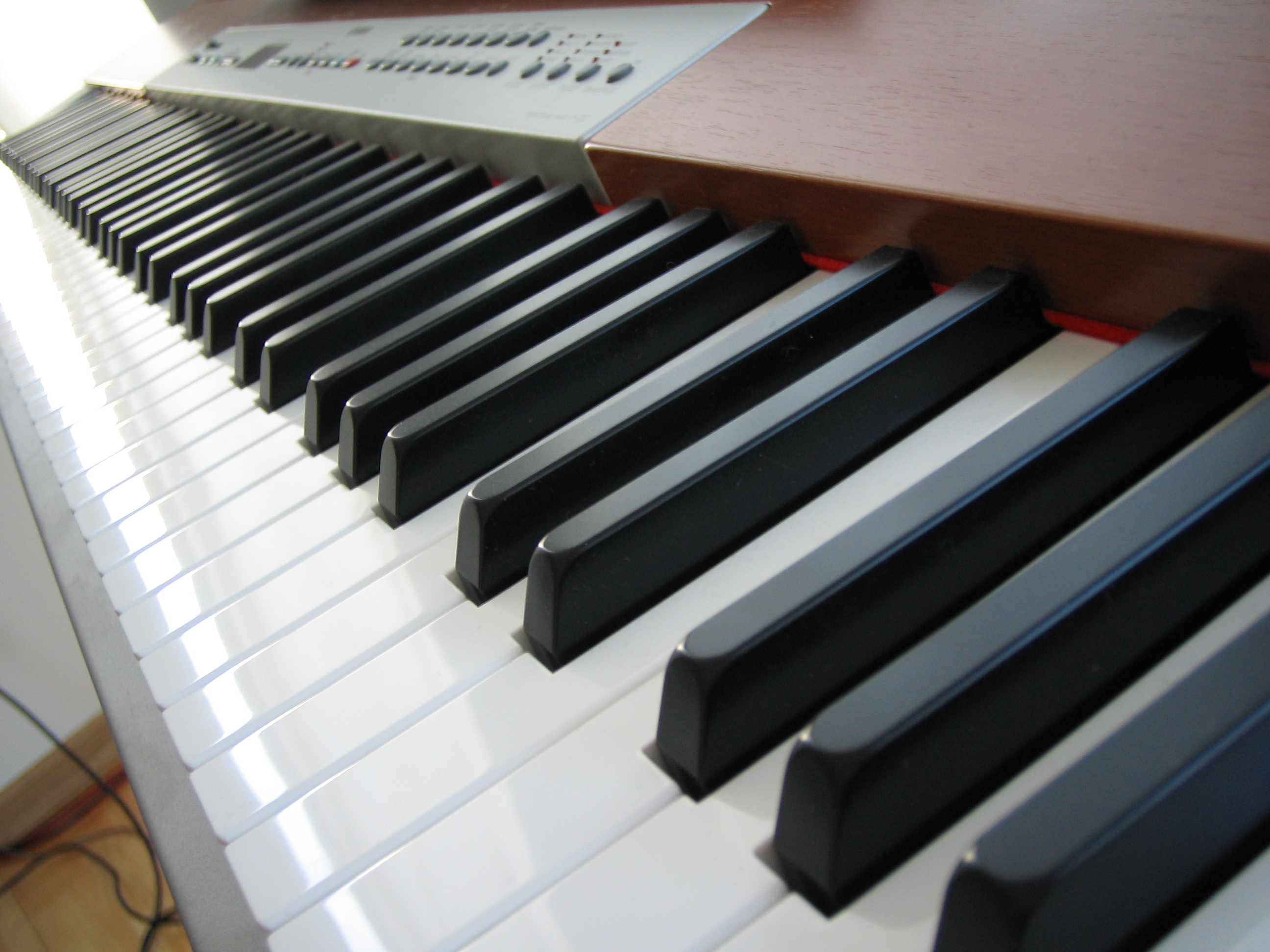 YAMAHA P120 88-key, Graded Hammer Effect Digital Piano